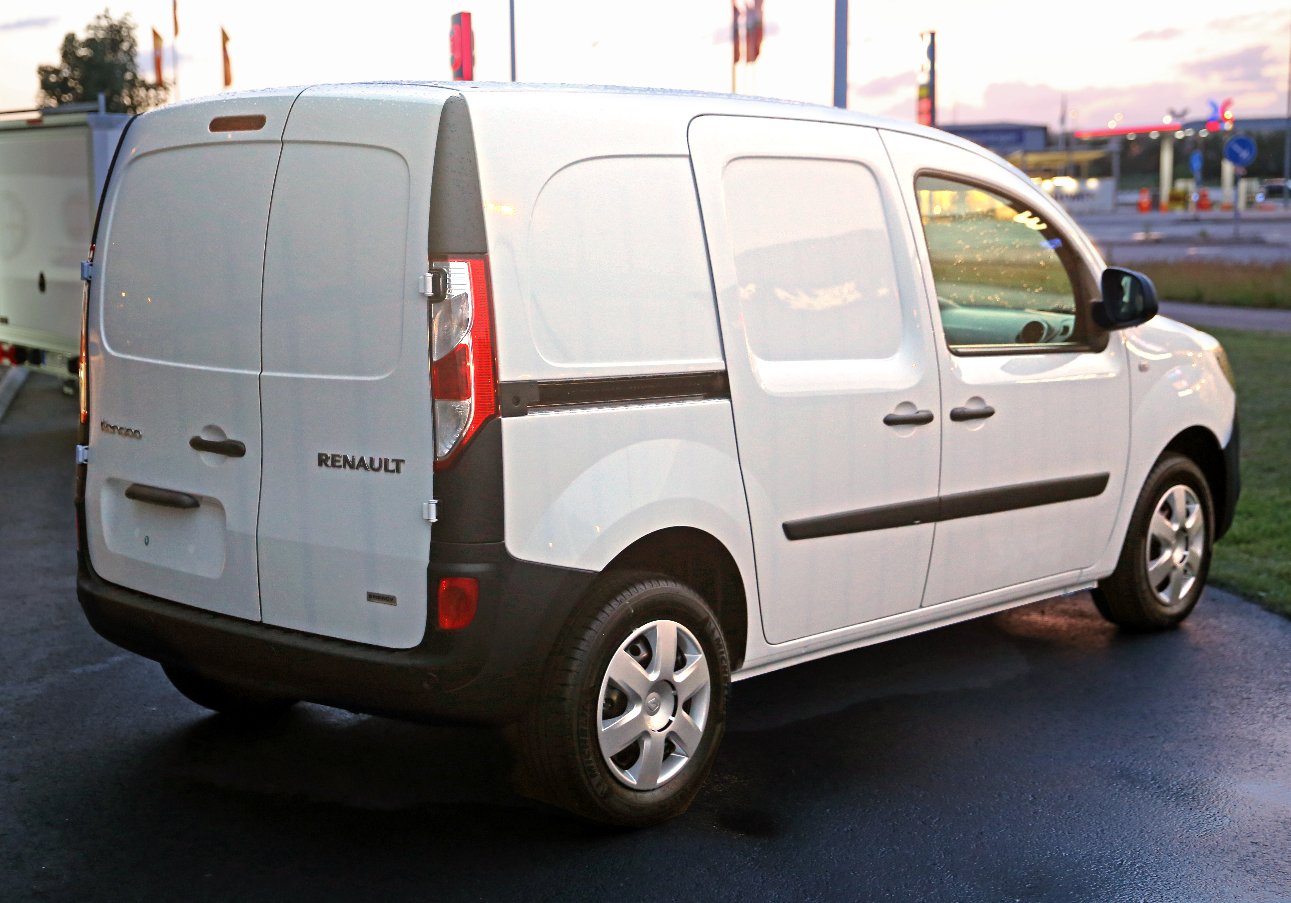 The rear right ¾ view of a facelift model Renault Kangoo II van in Halmstad, Sweden.